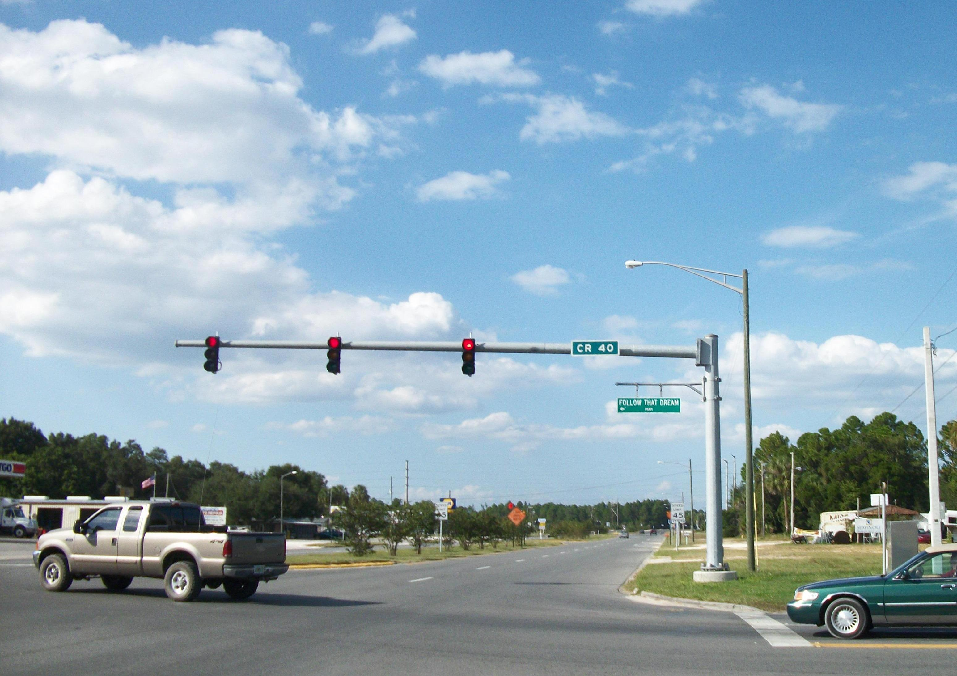 Northbound US 19-98 at the intersection of Levy County Road 40 in Inglis, Florida. This picture was cropped in order to put greater emphasis on the street name of the section west of US 19-98, which is "Follow That Dream Parkway," a street named in honor of the 1962 Elvis Presley movie Follow That Dream. East of US 19-98 it's just County Road 40.